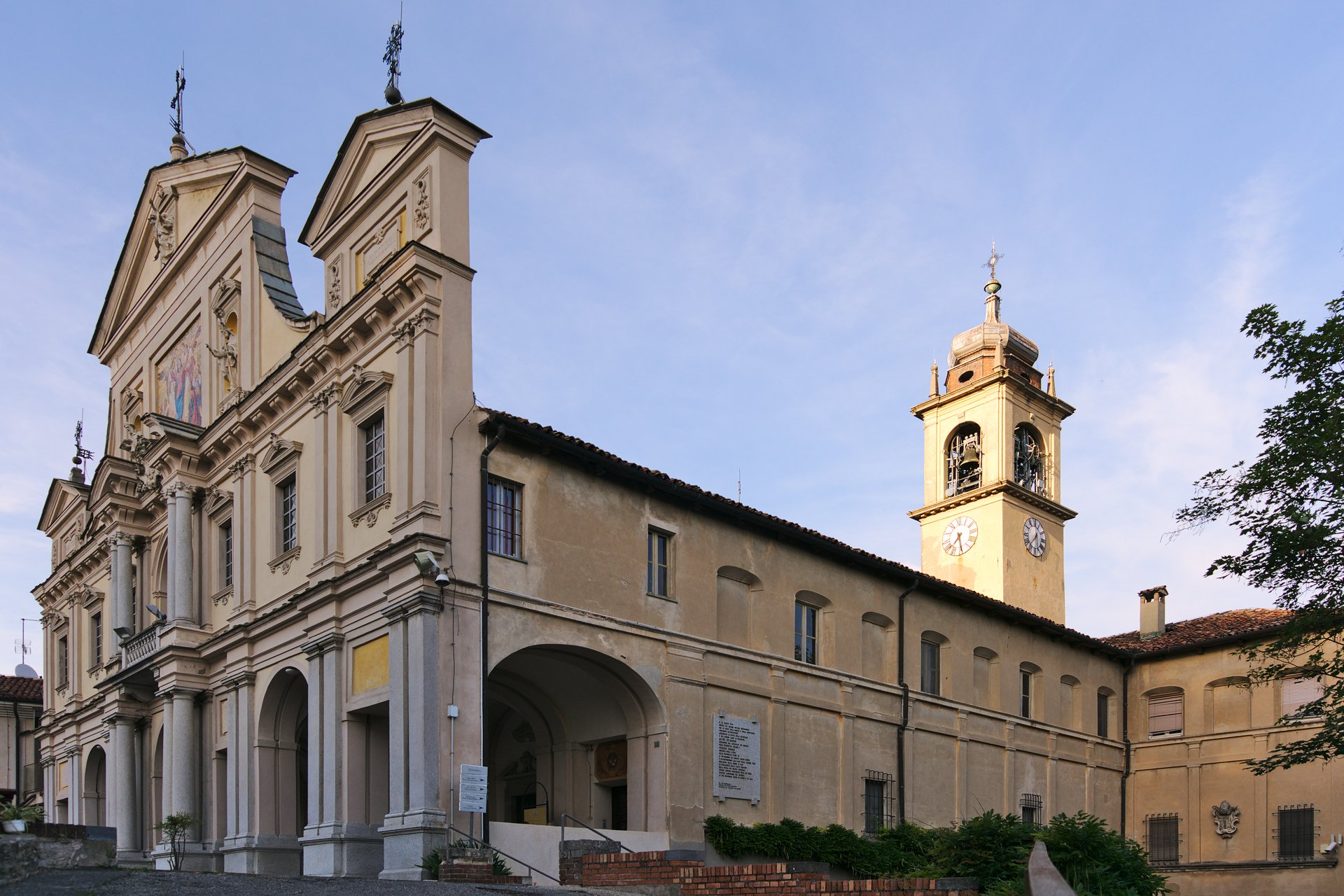 Sanctuary of Crea:.